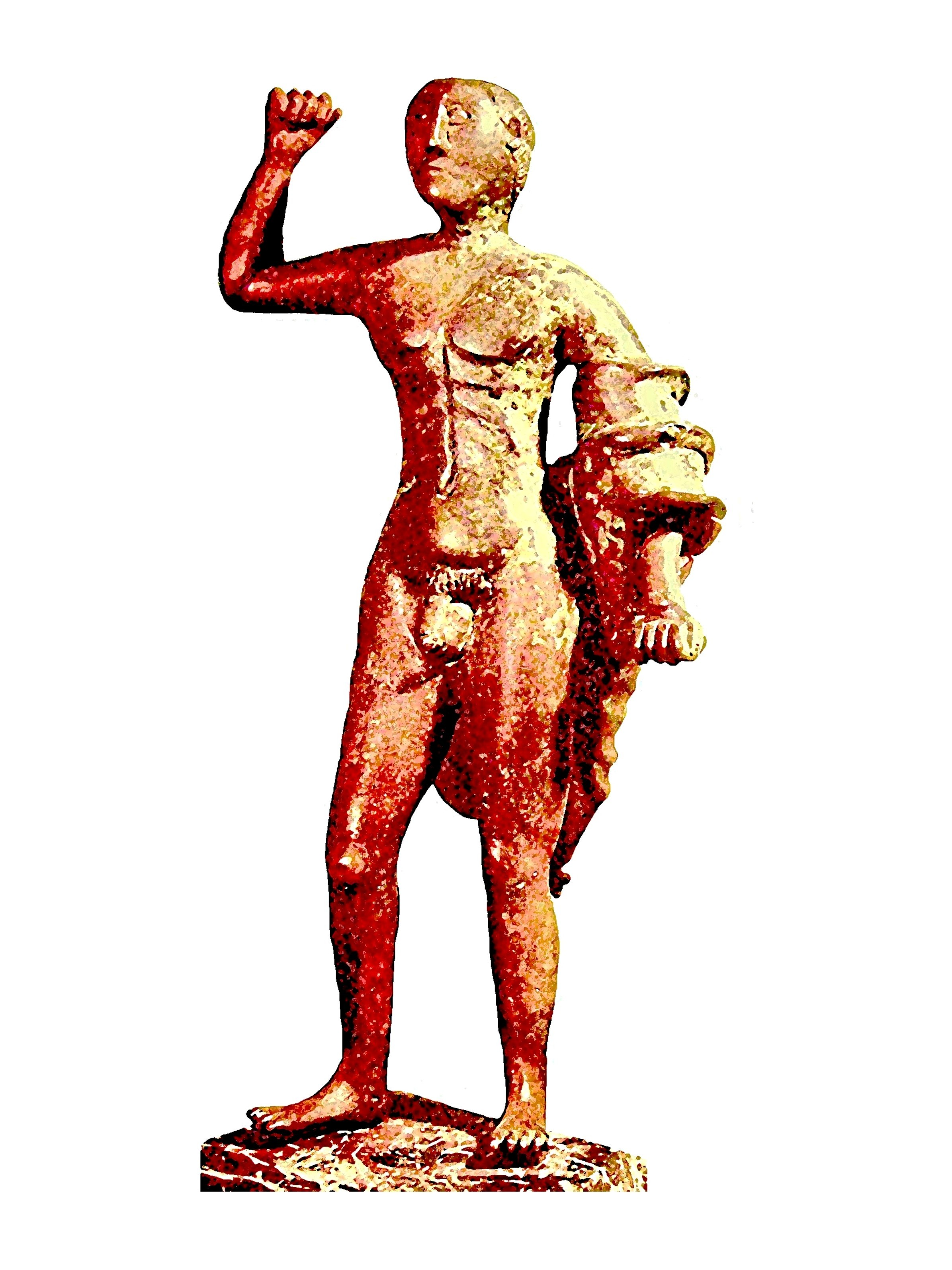 Bronze statuette called Ercole di Posada - Sardinia - (Cagliari, Museo Archeologico Nazionale)